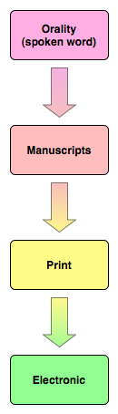 Vertical Diagram of shifts in communication technology.